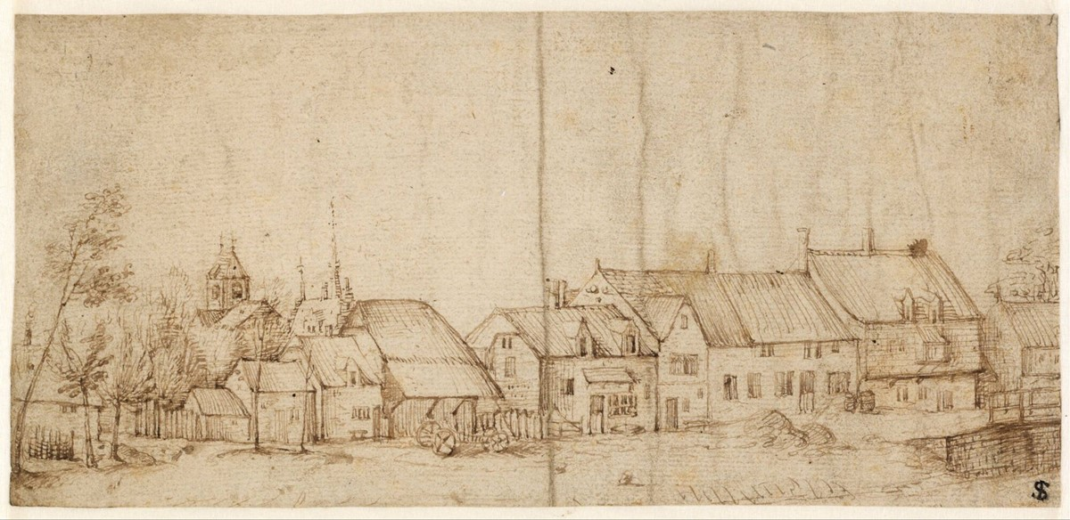 Master of the Small Landscapes, Village View, drawing, pen and brown ink on paper, 90 x 192 mm, Museum Boijmans Van Beuningen